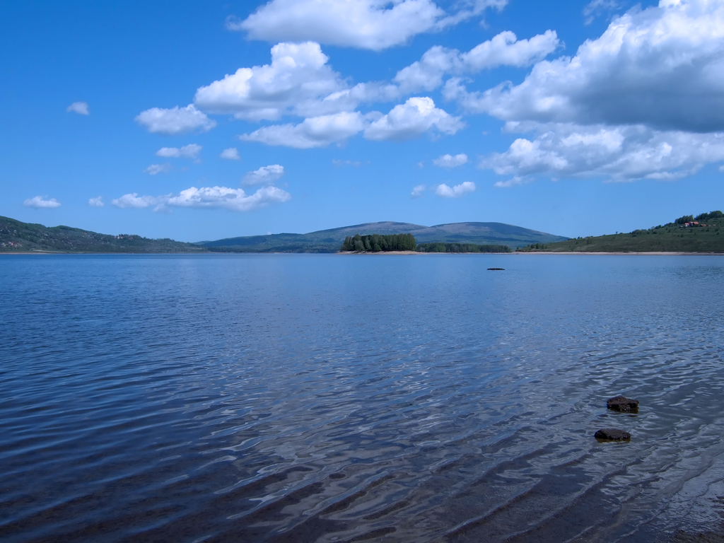 Vlasina Lake, south-east Serbia